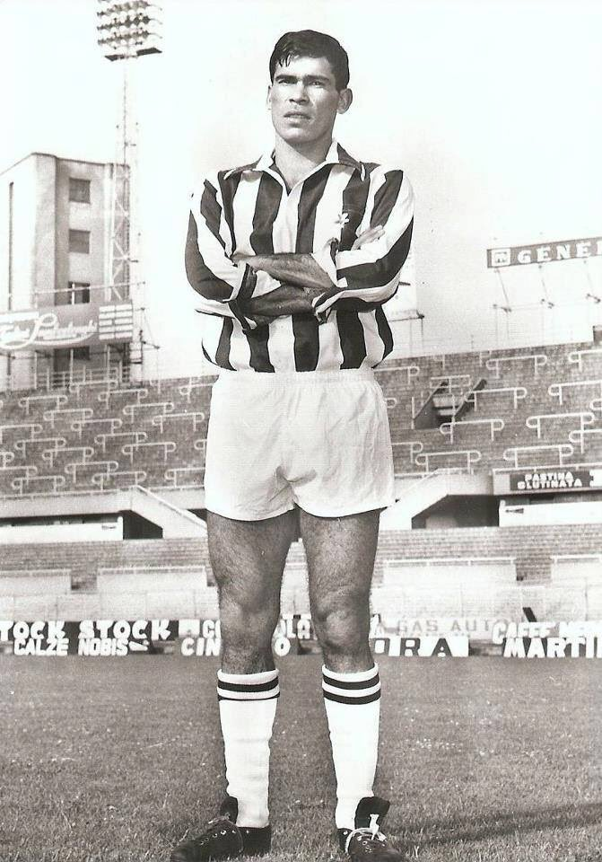 French-Argentines footballer Nestor Combin with Juventus F.C. in the 1964–65 season, posing inside the Communal Stadium in Turin.